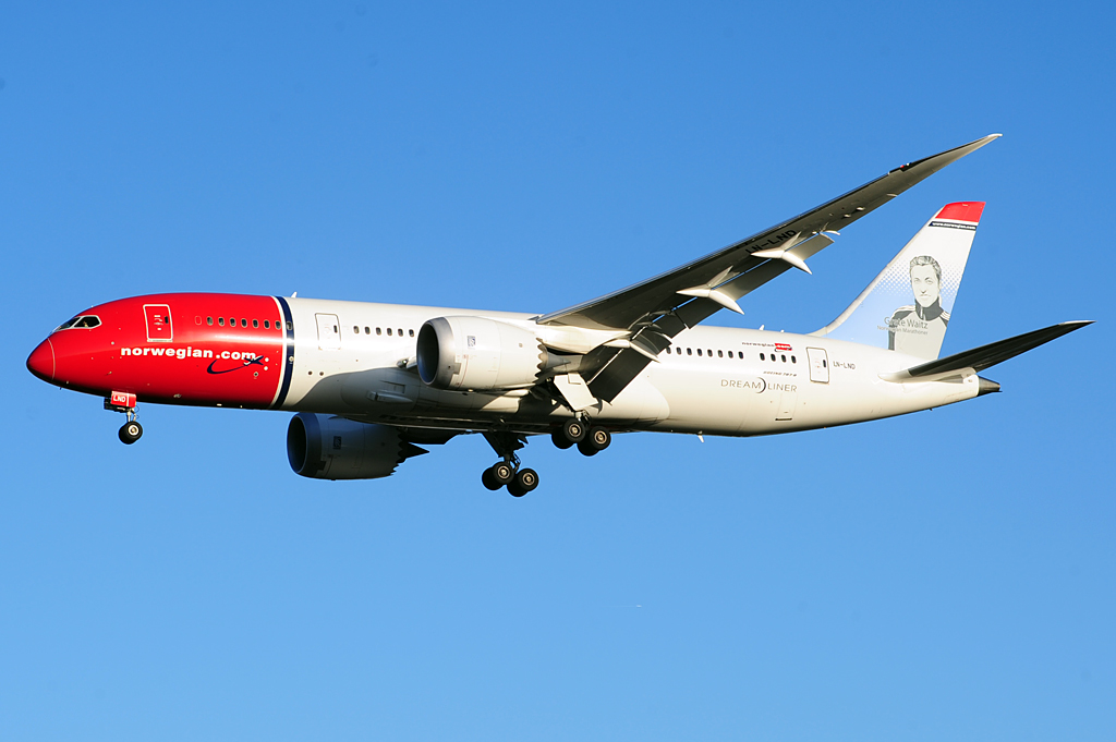 Norwegian Long Haul B787-8 LN-LND at london Gatwick. December 31, 2015.